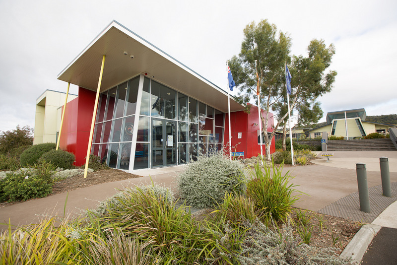 SACC HC admin